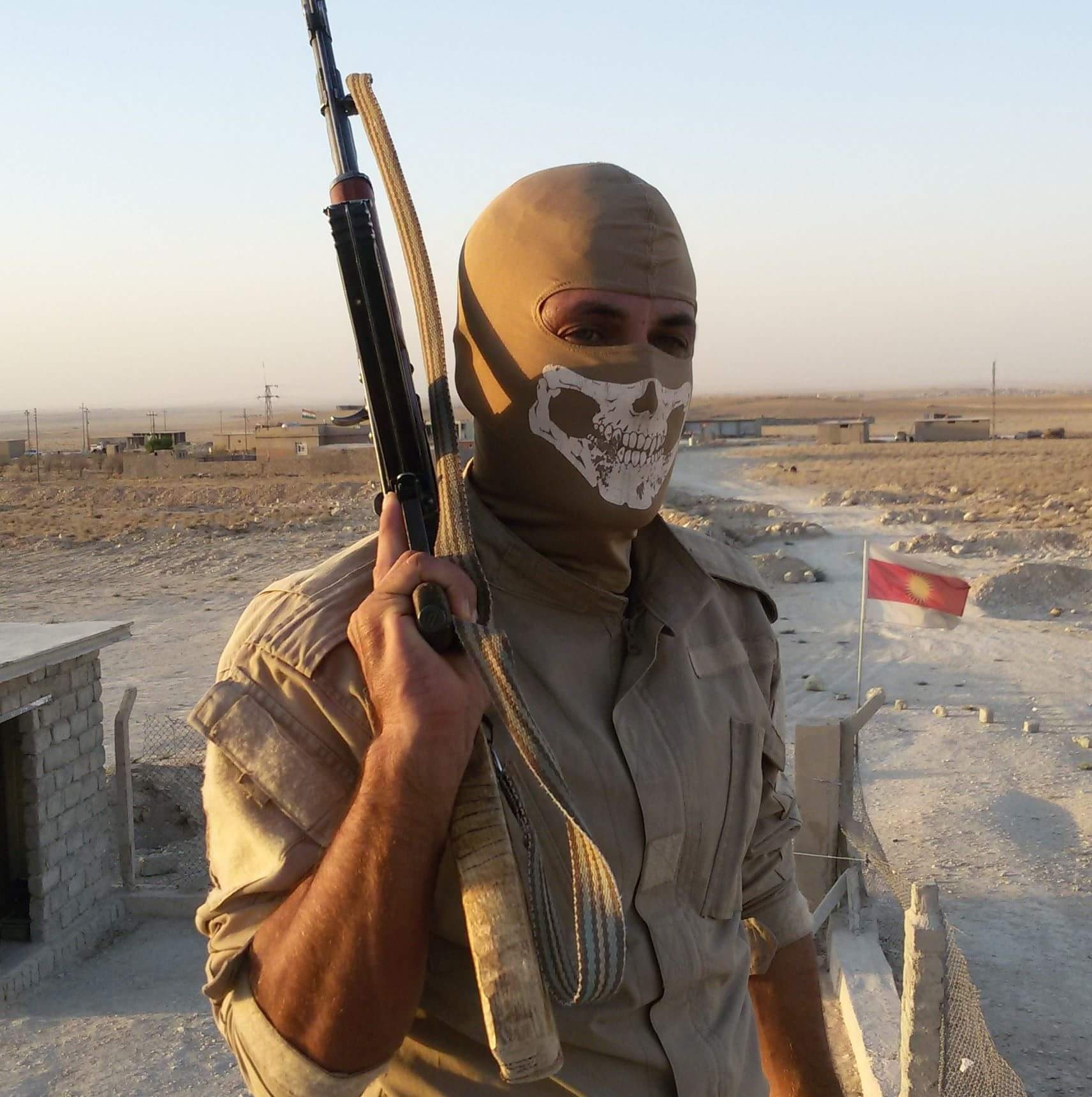 Êzîdxan Protection Force YPG